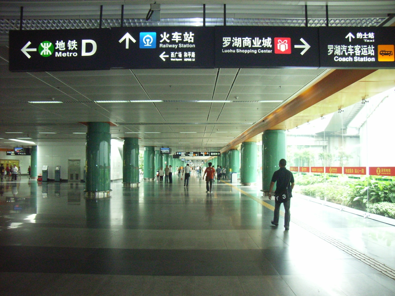 深圳地鐵 沿線各站風景Shenzhen, China (Author is SAMZ).